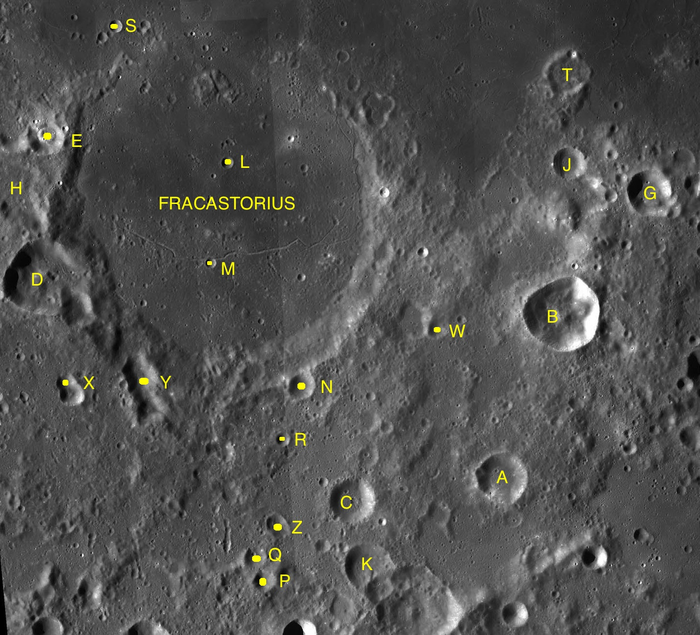 Part of the chart LAC-97